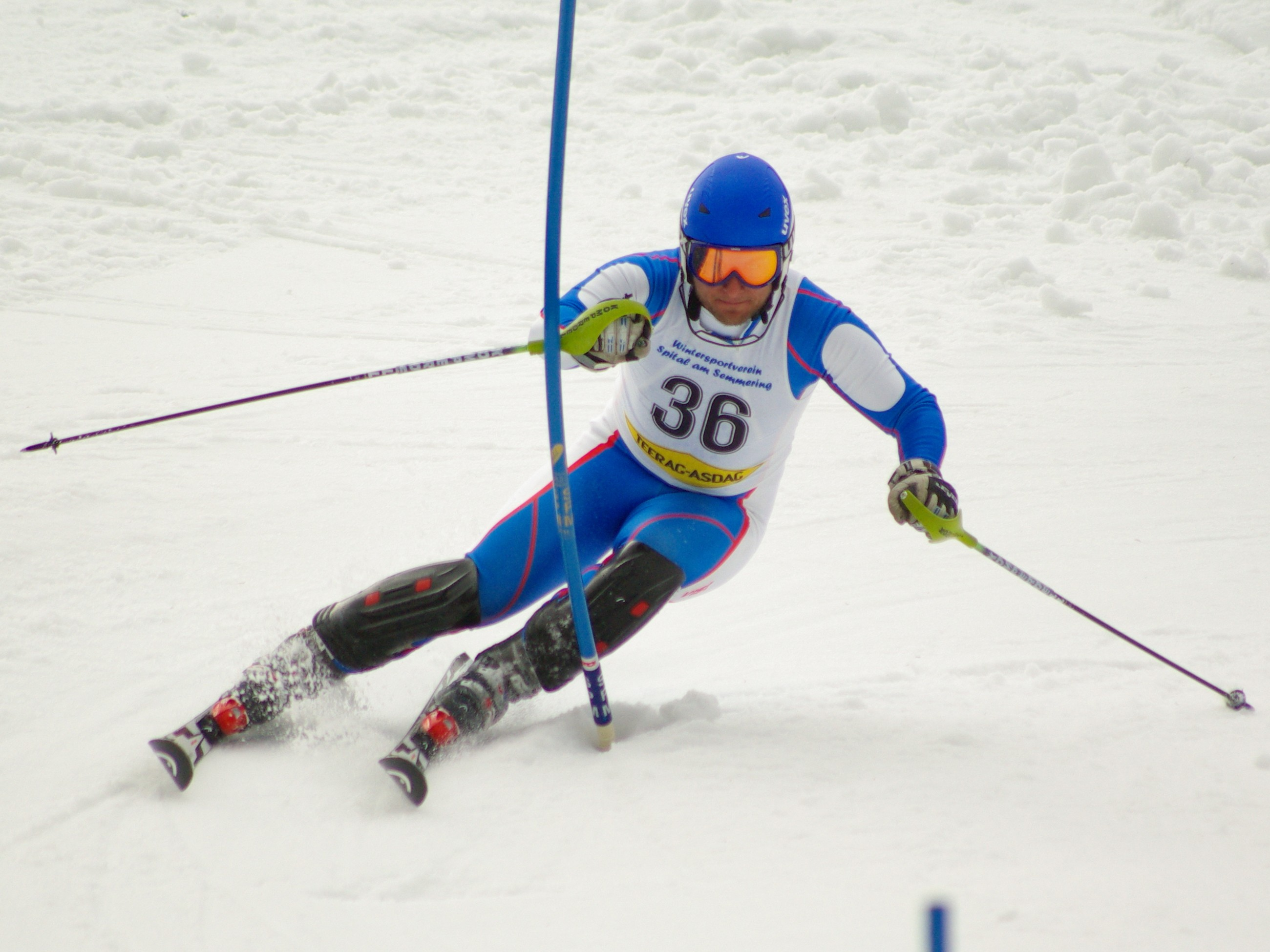 Slovak alpine skier Ivan Heimschild during the slalom run of the FIS super combined in Spital am Semmering, Austria on 11 March 2008.